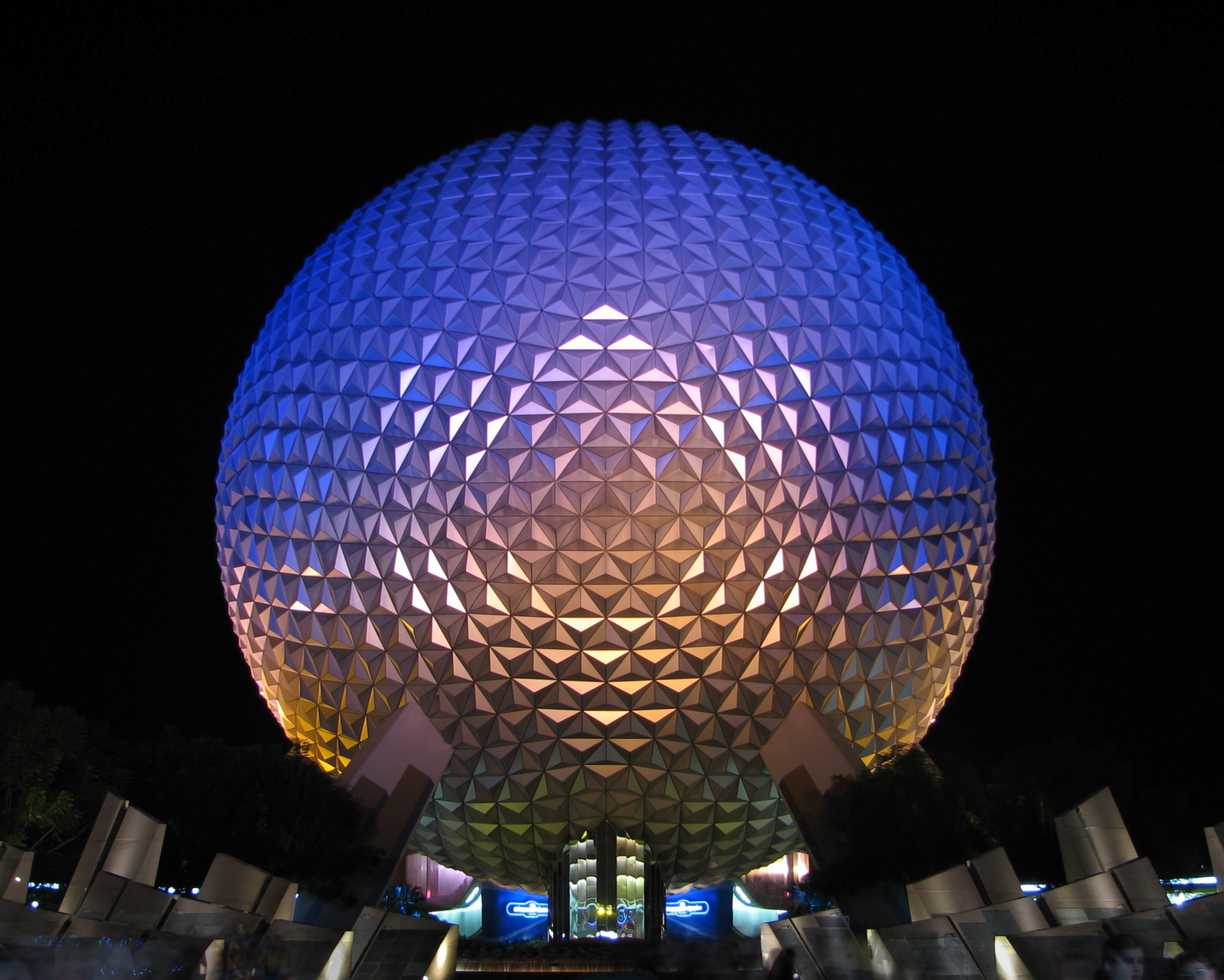 Spaceship Earth at Epcot at night.